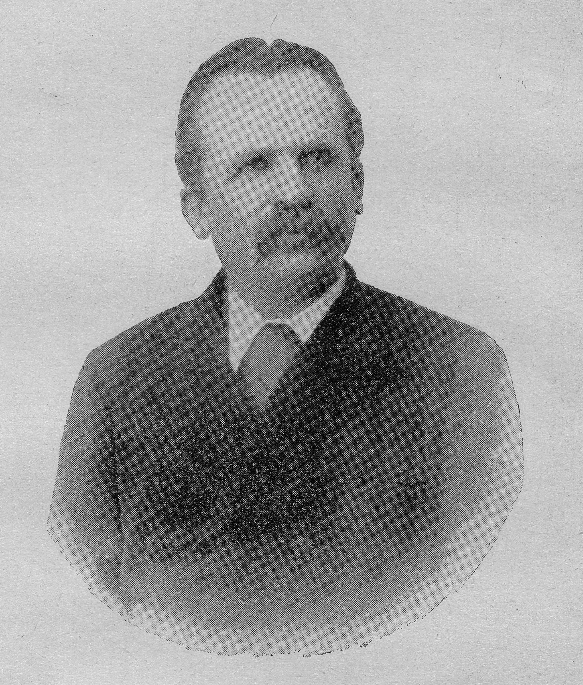 A photograph of Vasilije Vujić (1843-1916), classical philologist, theologian, writer and director of the Karlovci Gymnasium. Taken from the 1898 edition of the calendar Orao. Srpski (latinica): Fotografija Vasilija Vujića (1843-1916), klasičnog filologa, bogoslova, pisca i direktora Karlovačke gimnazije. Preuzeto iz izdanja kalendara Orao za 1898. godinu.